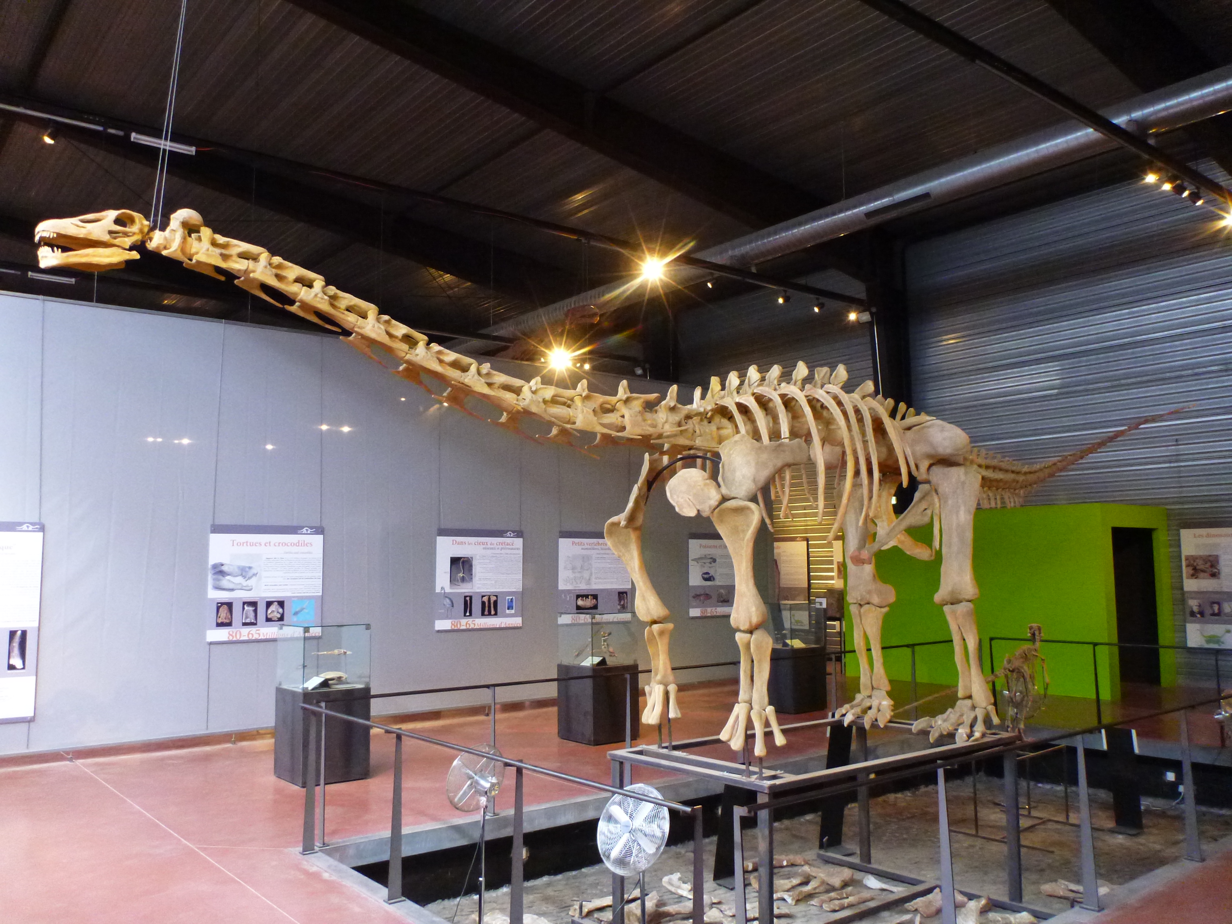 Mounted skeleton of Ampelosaurus, Musée des dinosaures, Esperaza, France